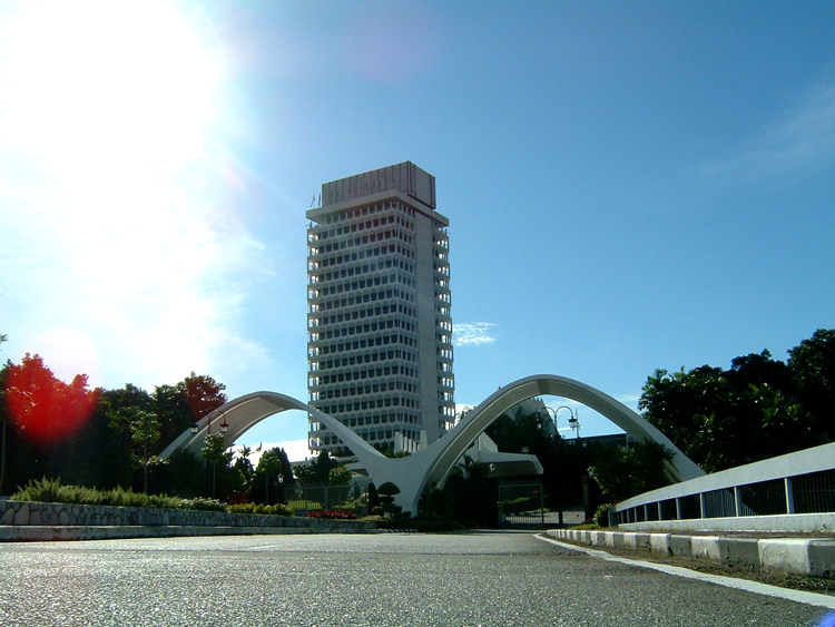 The Parliament of Malaysia taken by Mohd Hafiz Noor Shams, User __earth. Taken on April 22, 2006. Viewed from Jalan Parlimen. [1]